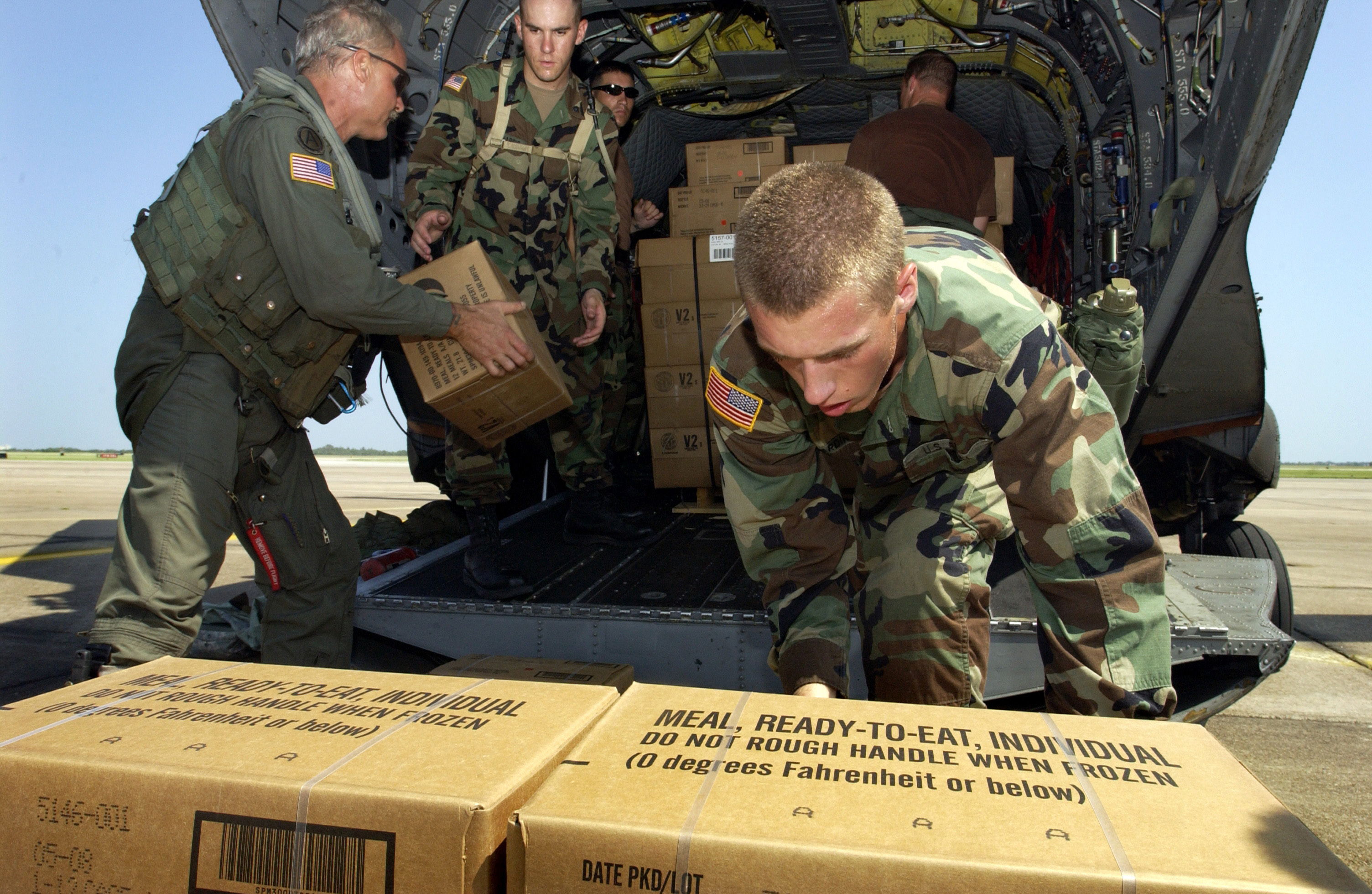 U.S. Army Pvt. Raef Hardin (right) and Spc. Jade Harris (second from left) help crew chief Staff Sgt. Brian Ogle (left) load hundreds of meals, ready to eat and water onto a CH-47 Chinook helicopter at Ellington Field, Texas, on Sept. 27, 2005. Department of Defense units are mobilized as part of Joint Task Force Rita to support the Federal Emergency Management Agency's disaster-relief efforts in the Gulf Coast areas devastated by Hurricane Rita.